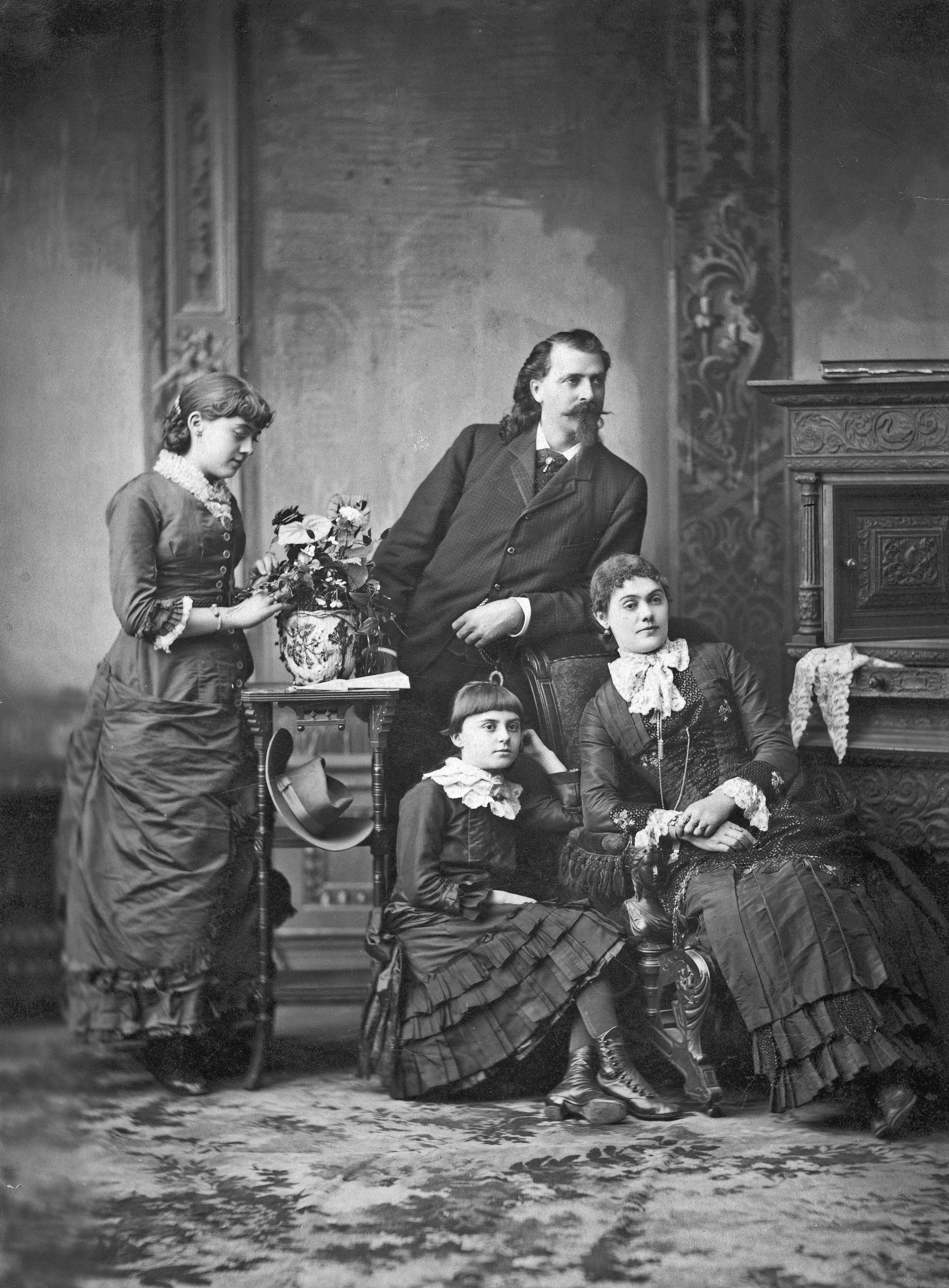 Photograph of William F. "Buffalo Bill" Cody and his wife, Louisa, and their daughter Orra.